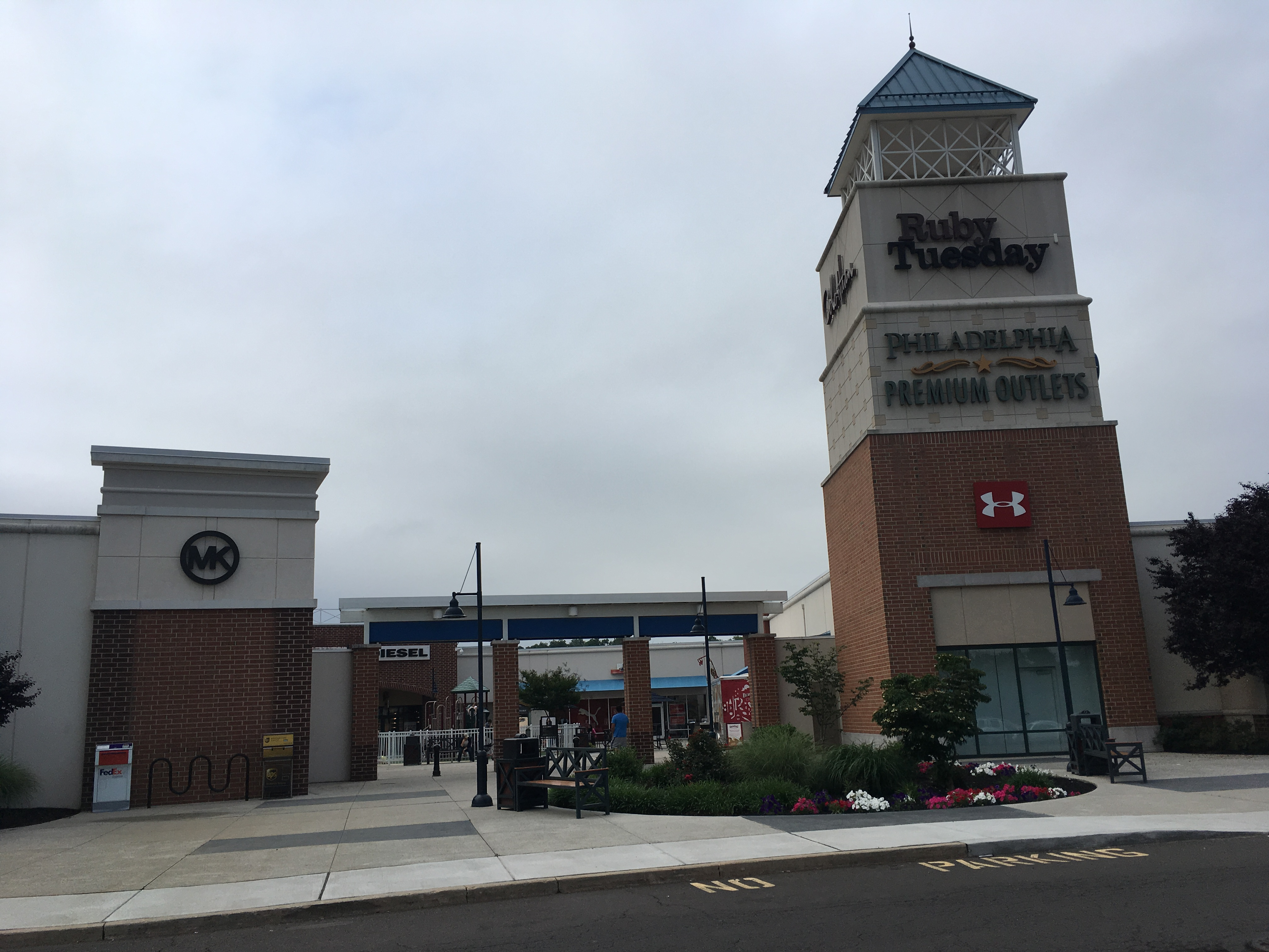 The southwest entrance to the Philadelphia Premium Outlets in Limerick, Pennsylvania